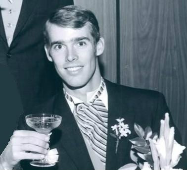 Publicity photo of Rich Nye.